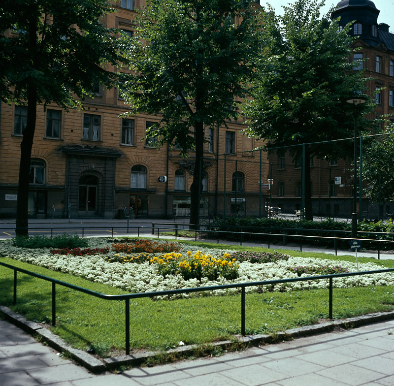 Plantation with floral group alyssum in front of Ahlströmska skolan, Kommendörsgatan 31, Stockholm, in view from the school. Unknown